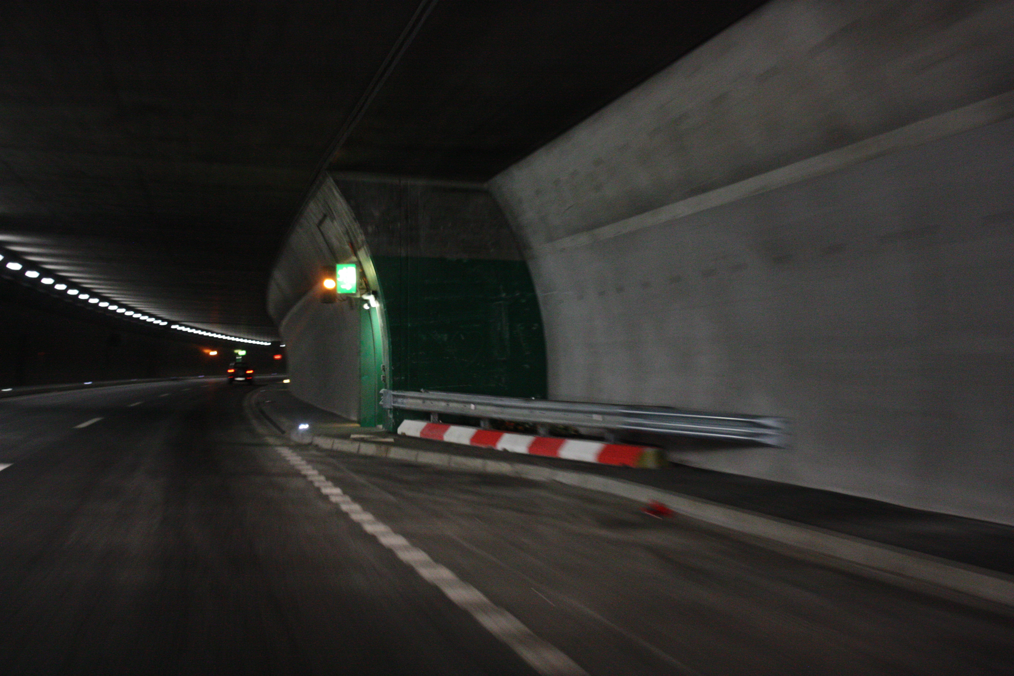 The wall where the bus crash took place in March 2012 in the tunnel of Sierre in Switzerland. A new safety barrier has been reinstalled after the accident.